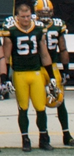 Brady Poppinga on sideline